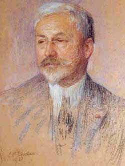 Pastel portrait of Guillaume.